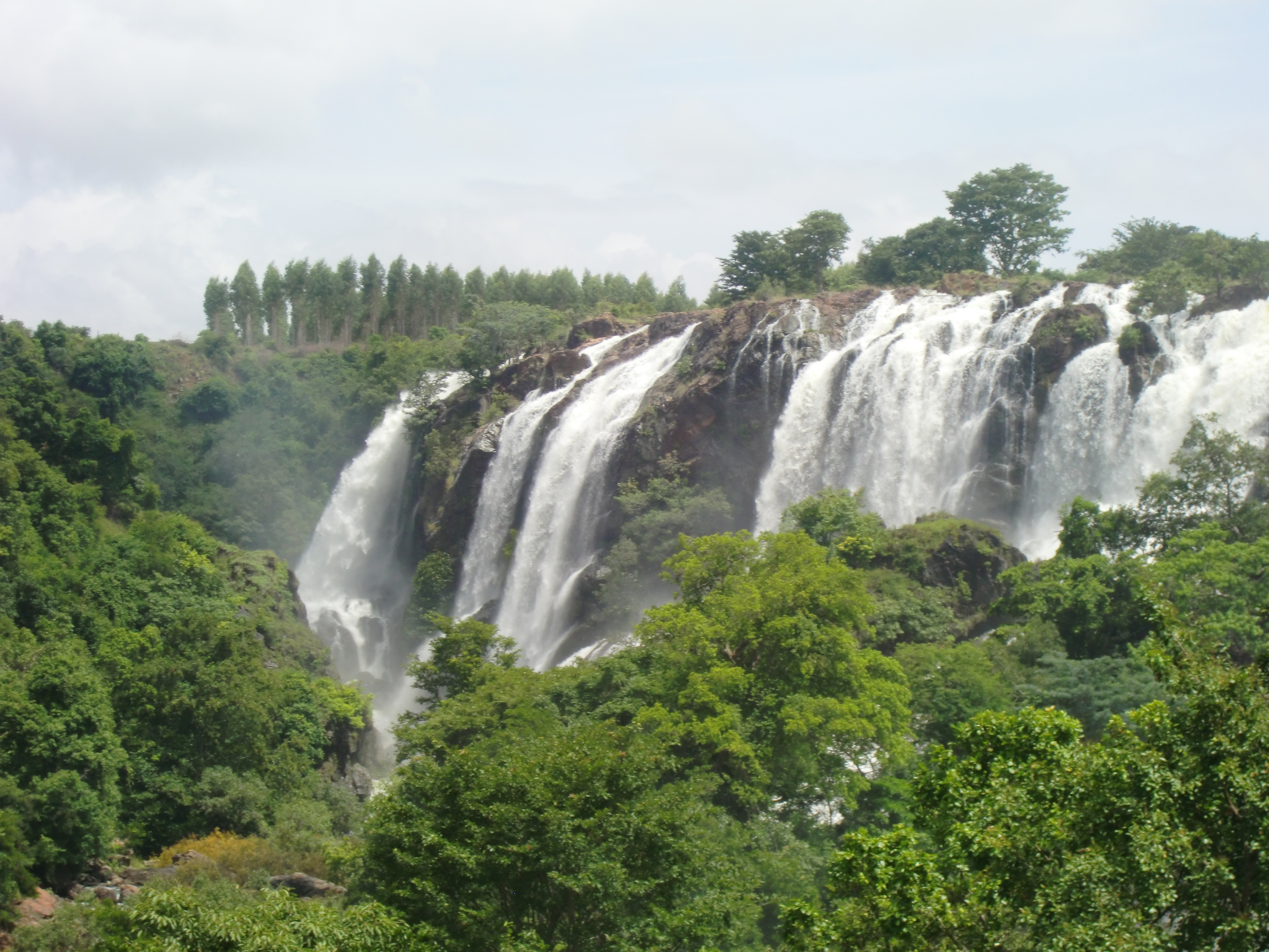 Bharachukki Waterfalls in Shivanasamudram, Karnataka, India